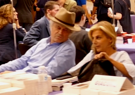 Anne Fulda & Franz-Olivier Giesbert at Salon de la Biographie 2016, Chaville (France)